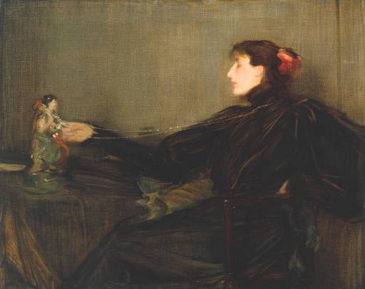 Photograph of Fantaisie en Folie, 1897. Oil on canvas, by Robert Brough. In the public domain.